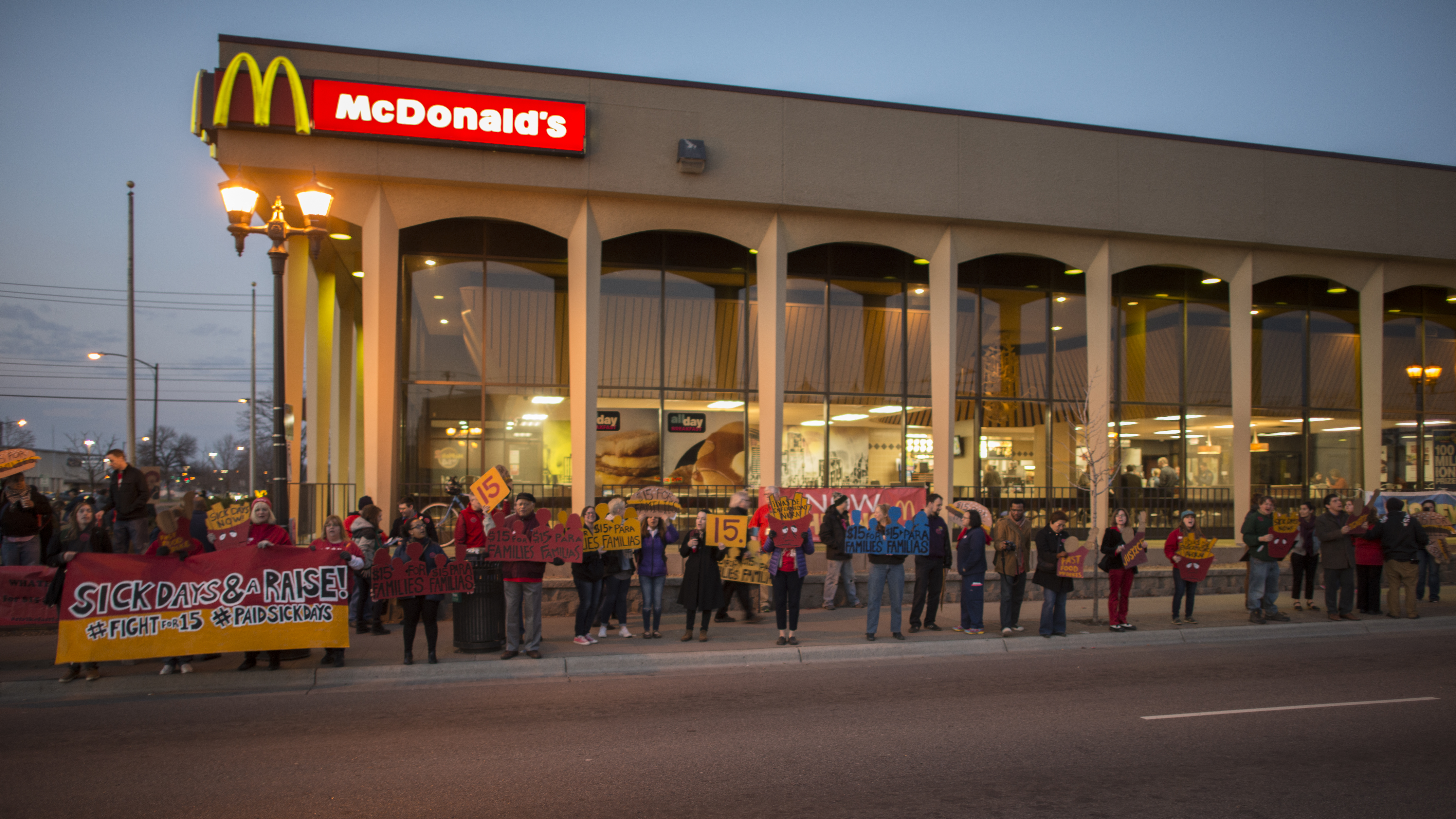 St. Paul, Minnesota April 14, 2016 On April 14, fast food workers around the USA walked out on strike. Protesters gathered outside the McDonald's restaurant at University Avenue and Marion Street in St. Paul and called for a $15 per hour minimum wage, paid sick days, and union rights. Within the last year, the cities of Seattle, Los Angeles, San Francisco, and New York have raised the minimum wage to $15 per hour. 2016-04-14 This is licensed under a Creative Commons Attribution License. Give attribution to: Fibonacci Blue